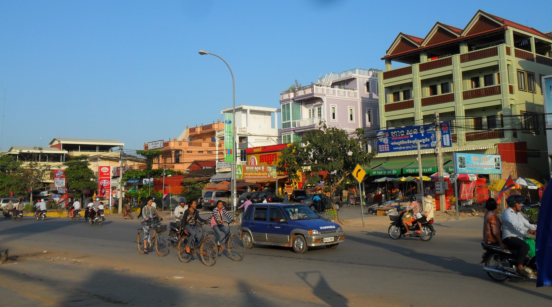 A main road (No. 6.) of Siem Reap, Cambodia